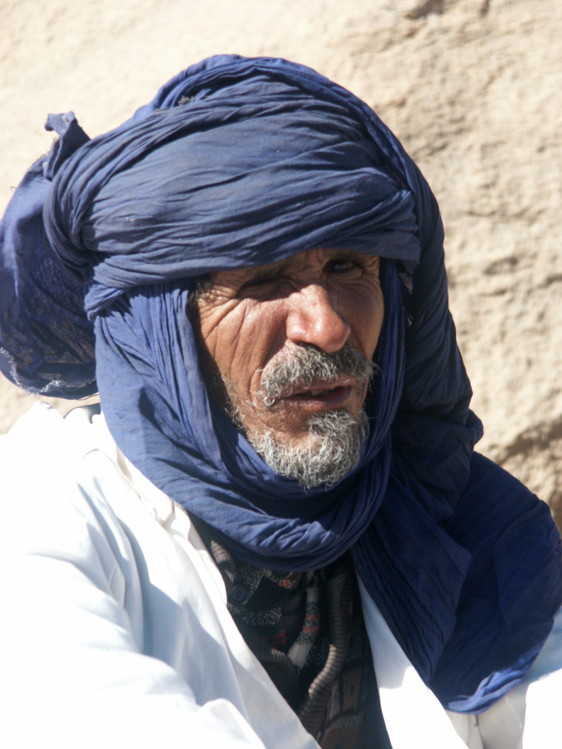 Tuareg from the Hoggar (Algeria) wearing the classical indigo turban